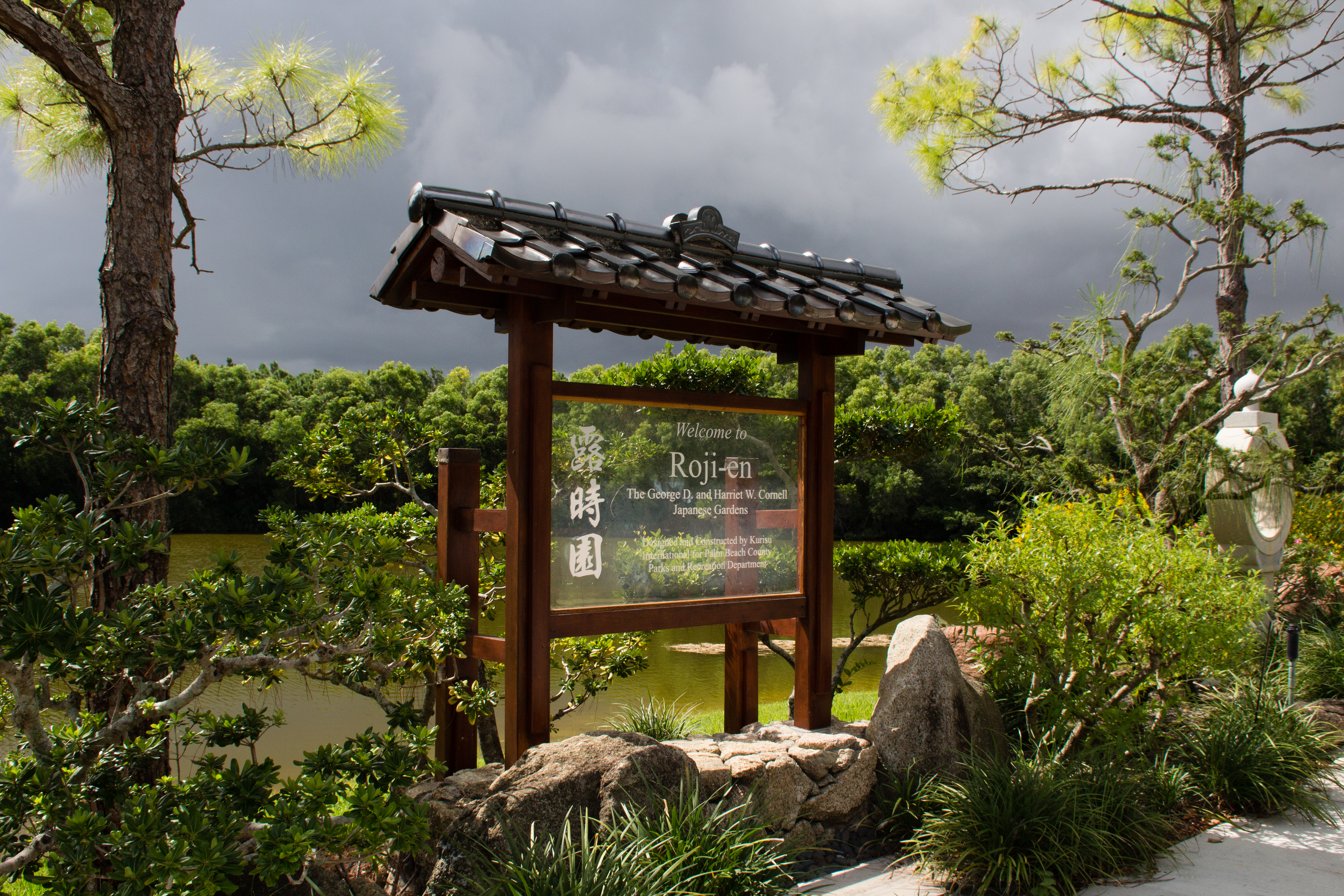 Photo Courtesy of Paige Bollman 日本庭園モリカミ博物館 [1]